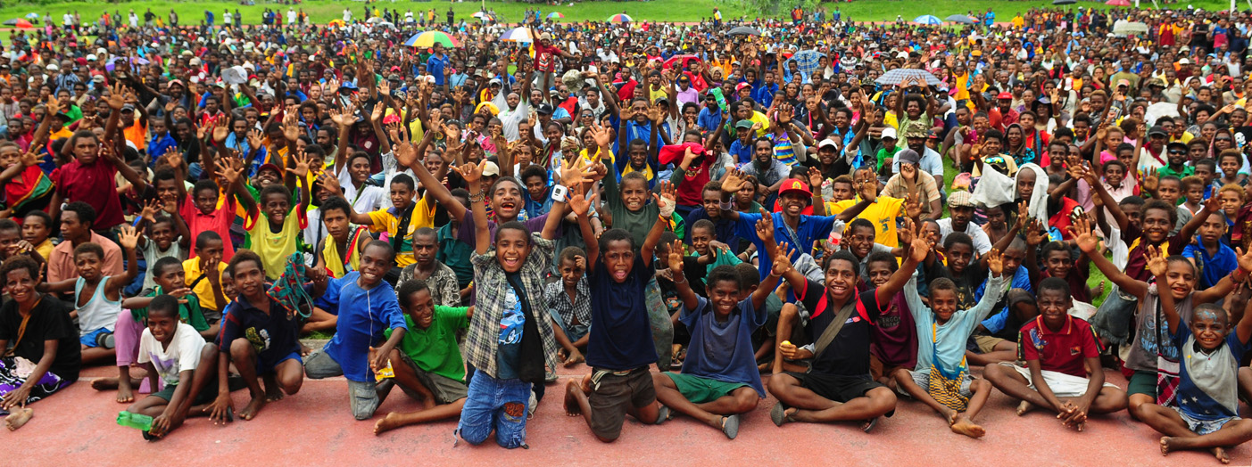 ID-USMil 110528-N-BC134-292 LAE, Papua New Guinea (May 28, 2011) – Natives watching soccer and later a rock concert held in Lae, in support of Pacific Partnership 2011. Pacific Partnership is a five-month humanitarian assistance initiative that will make port visits to Tonga, Vanuatu, Papua New Guinea, Timor-Leste, and the Federated States of Micronesia. (U.S. Navy photo by Mass Communication Specialist Seaman John Grandin)